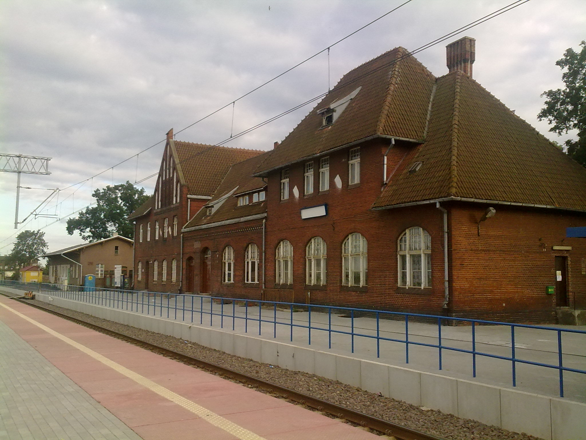 Building of Pszczółki train station